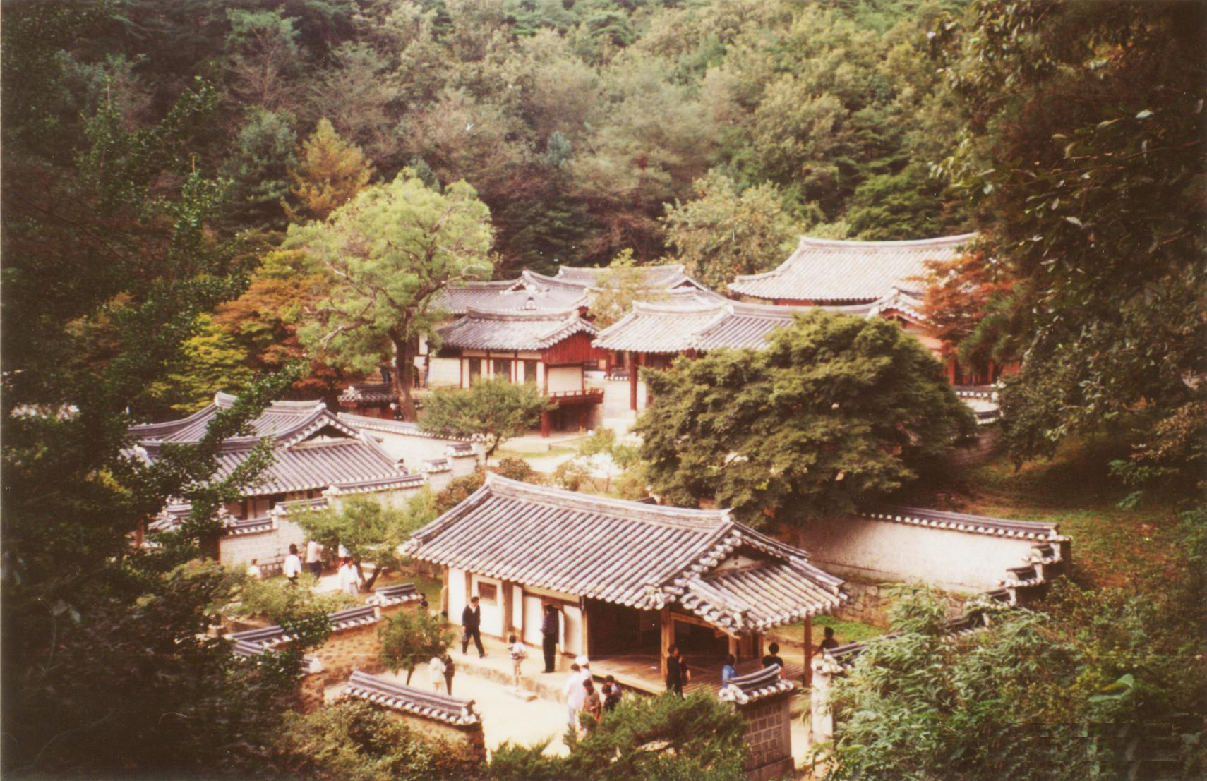 Taken from a hill next to Dosan Seowon in Andong, South Korea on October 1, 2000.